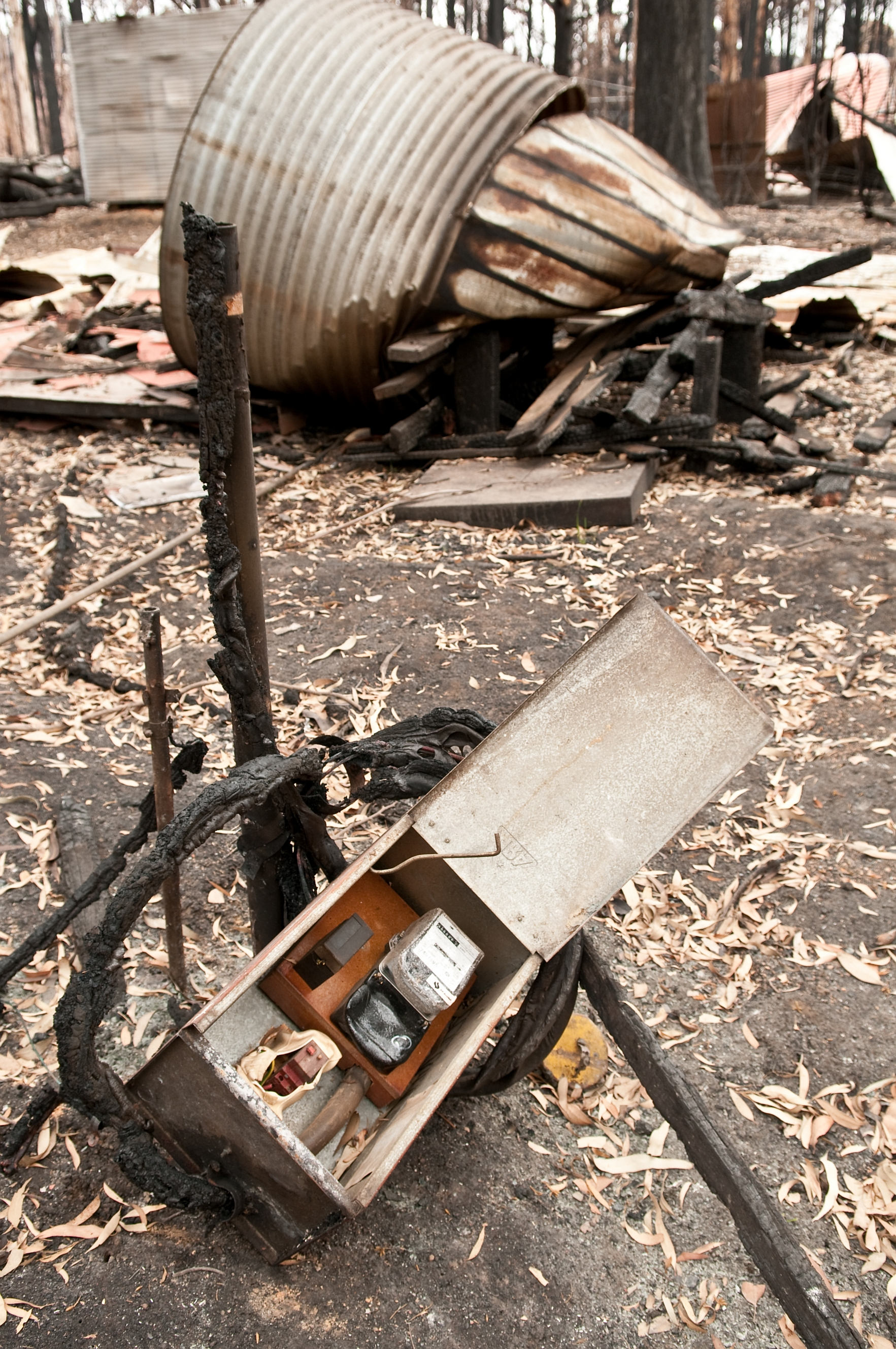 CSIRO is a participating agency in the Bushfire Cooperative Research Centre which has been looking at the key issues in the February 2009 bushfires. The CRC's Bushfire Research Task Force includes researchers from various state fire agencies and research organisations with expertise in building analysis, human behaviour, community education, bushfire behaviour, fire weather, and fire investigation. The purpose of the research is to provide fire and land management agencies with independent analyses of the factors surrounding the Victorian fires. CSIRO researchers from the Bushfire Dynamics and Applications Group, the Bushfire Urban Design project and the Remote Sensing team, will be involved with two areas of research: strategic fire behaviour - how the fires moved across different landscapes and different vegetation and under variable weather conditionsbuilding (infrastructure) and planning issues - patterns of loss and patterns of survival of build